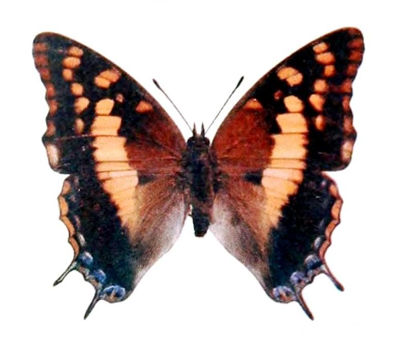 Blue-spangled emperor, female